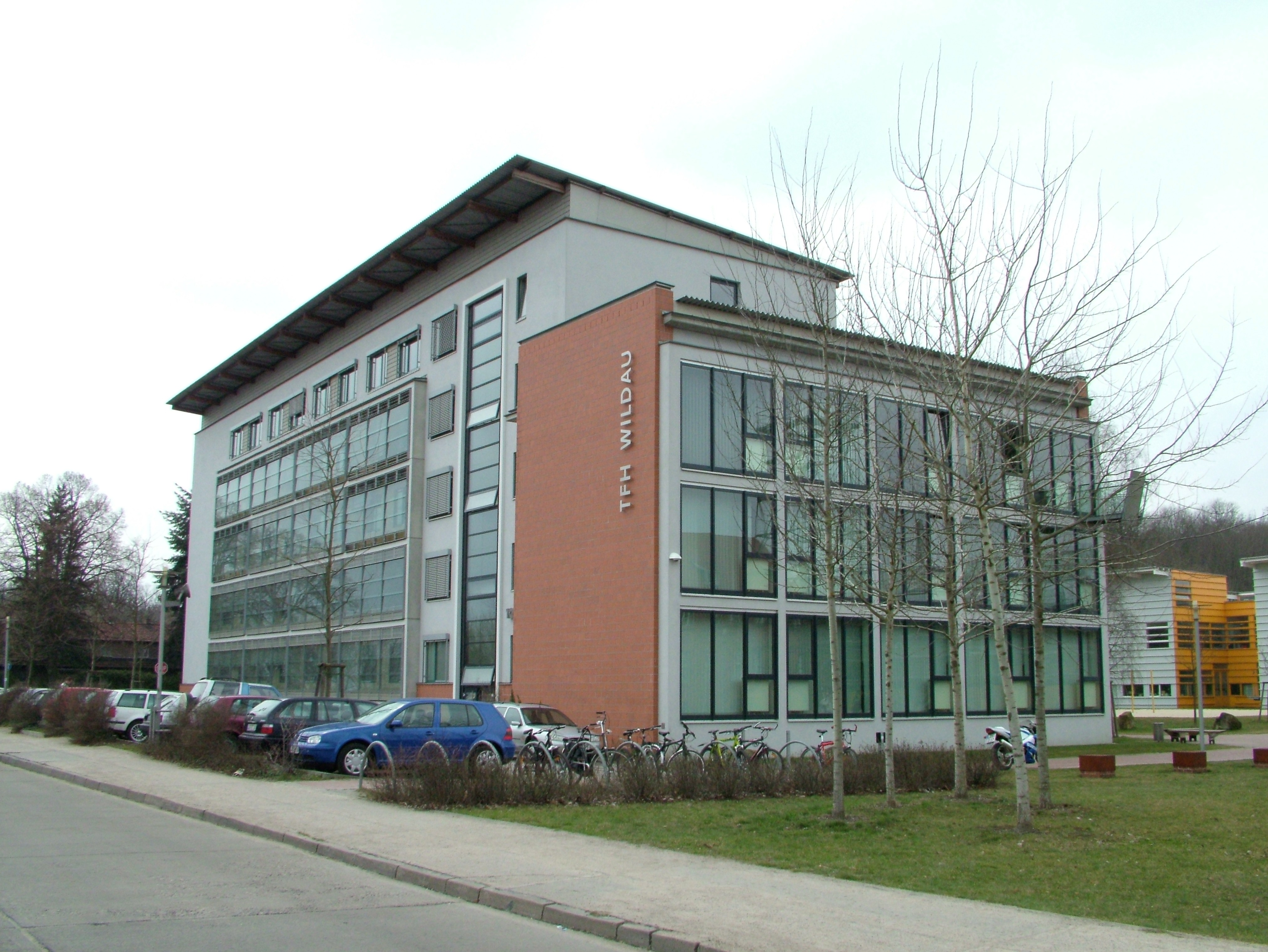 The University of Applied Sciences Wildau, Germany